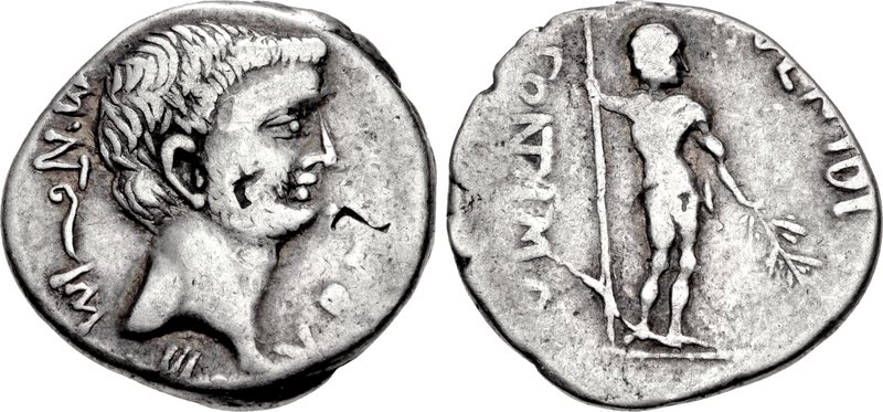 The Triumvirs. Mark Antony. Autumn-early winter 39 BC. AR Denarius (18mm, 3.60 g, 12h). Military mint traveling in Cilicia or northern Syria; Mark Antony, imperator. M · (ANT) IM · III · V · R · P [· C], bare head right; lituus to left [P] VE(NT)IDI PO(NT) IMP, Jupiter(?) standing right, holding scepter in right hand, olive branch in left.